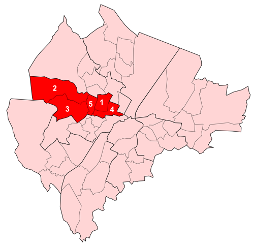 Map of the five Wards in the Court District Electoral Area of Belfast, Northern Ireland numbered in alphabetical order: 1: Crumlin 2: Glencairn 3: Highfield 4: Shankill 5: Woodvale